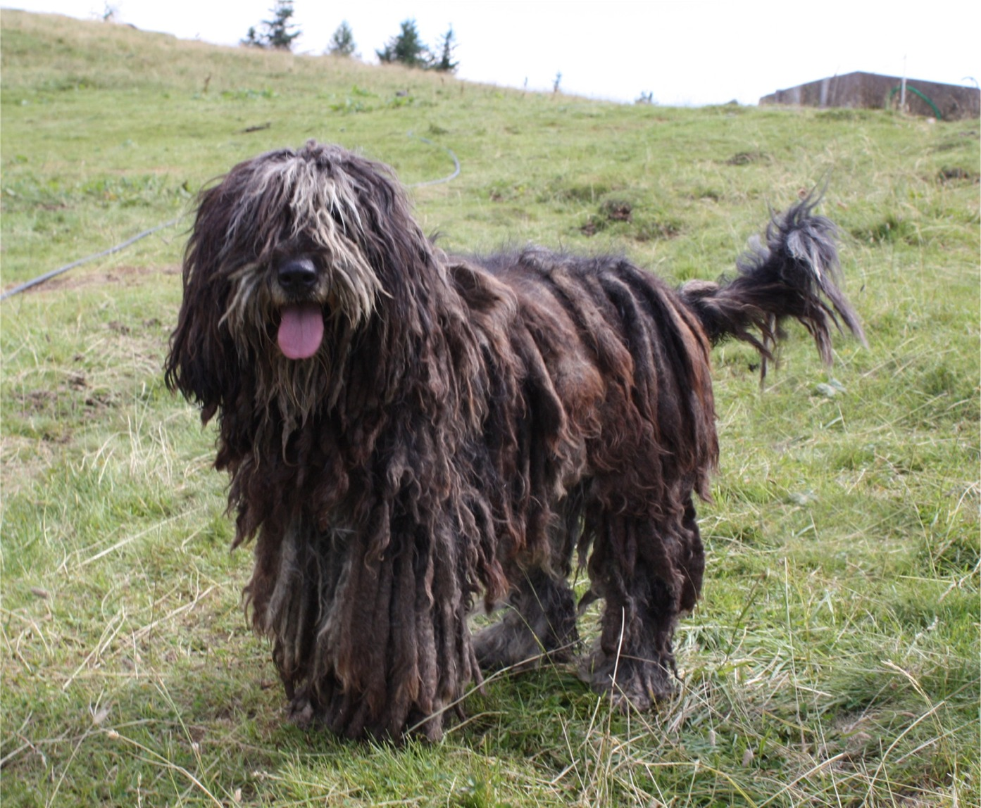 Bergamasco on an Italian Alp